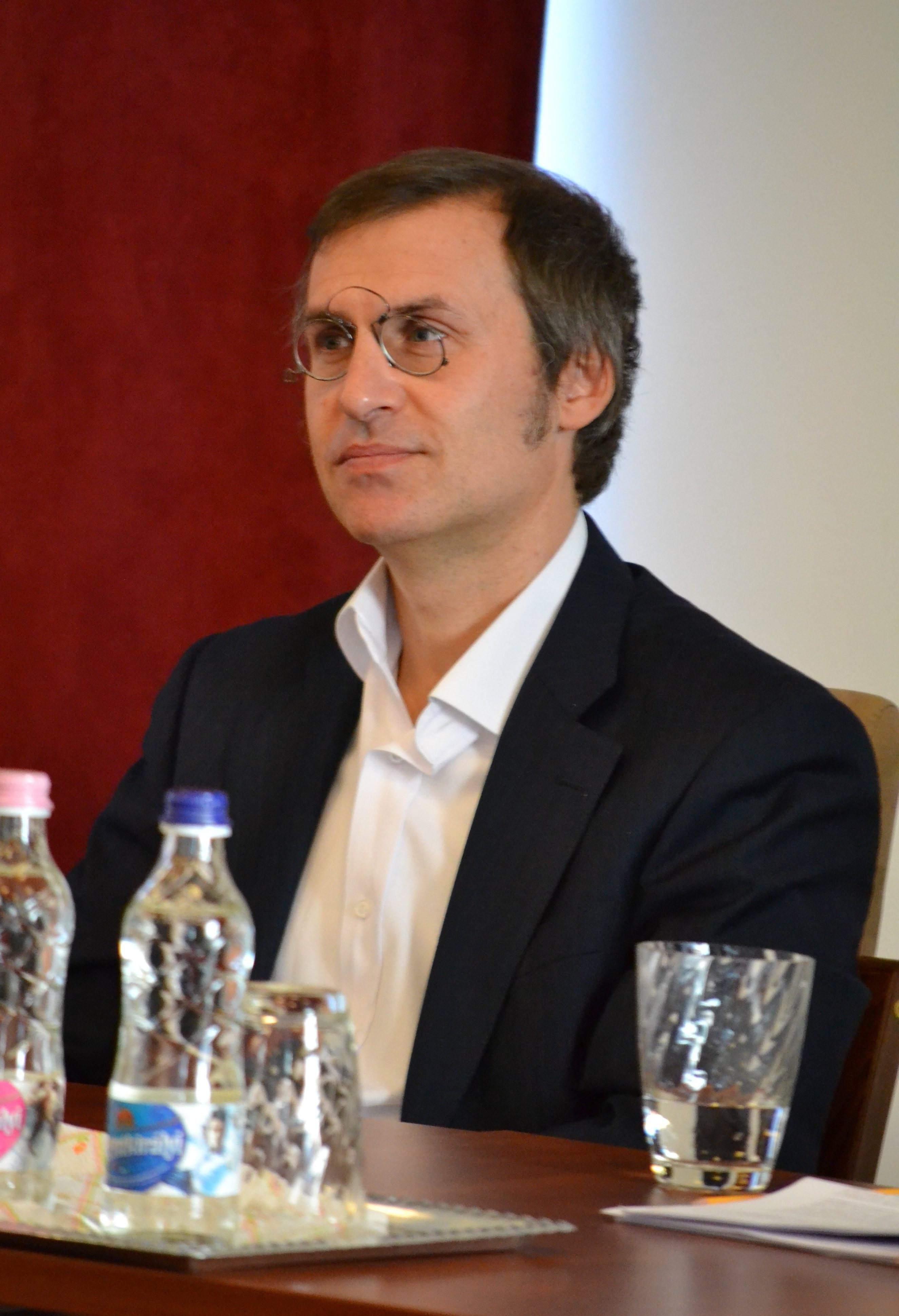 Francesco Sorti (born 1964) is an Italian journalist and author.